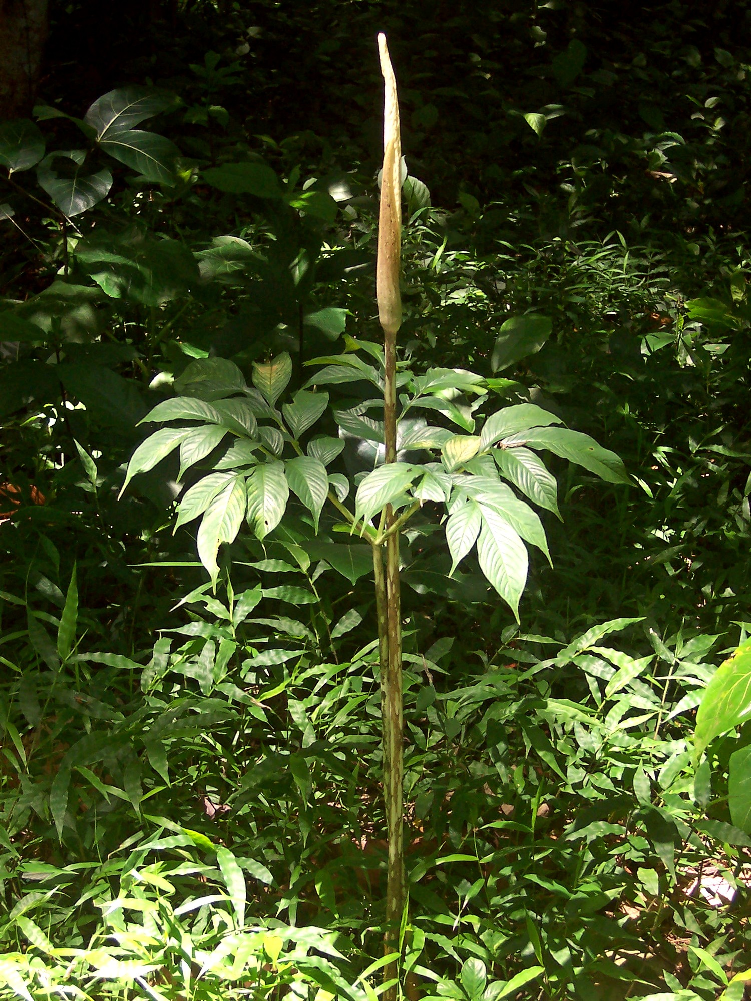 Amorphophallus variabilis; rare situation that inflorescence occurs simultaneously with leaves. From Bogor, West Java, Indonesia.